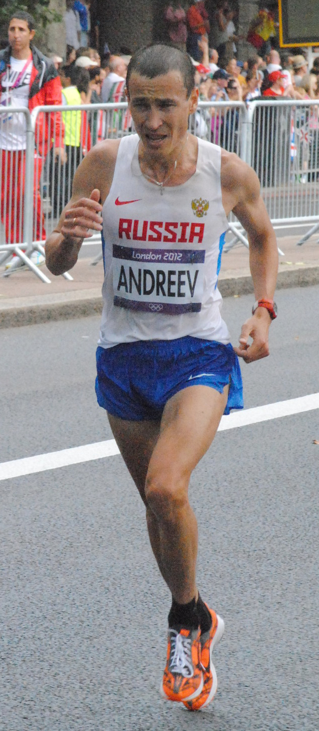 The men's marathon of the 2012 Summer Olympics in London, UK took place on an Olympic marathon street course on Sunday 12th August 2012 at 11:00. This was the final day of the 30th Olympic Games. The London 2012 marathon course is the standard Olympic distance of 26 miles 385 yards and consists of one short lap of approx 2.2 miles followed by three longer laps of 8 miles. The course began on The Mall and travelled past several of the most famous London landmarks. The start/finish line was near the Victoria Memorial. These photographs were taken at the Victoria Embankment. This featured several times on the looped course. The approximate location from the photographs is shown in the Google StreetView Link below.